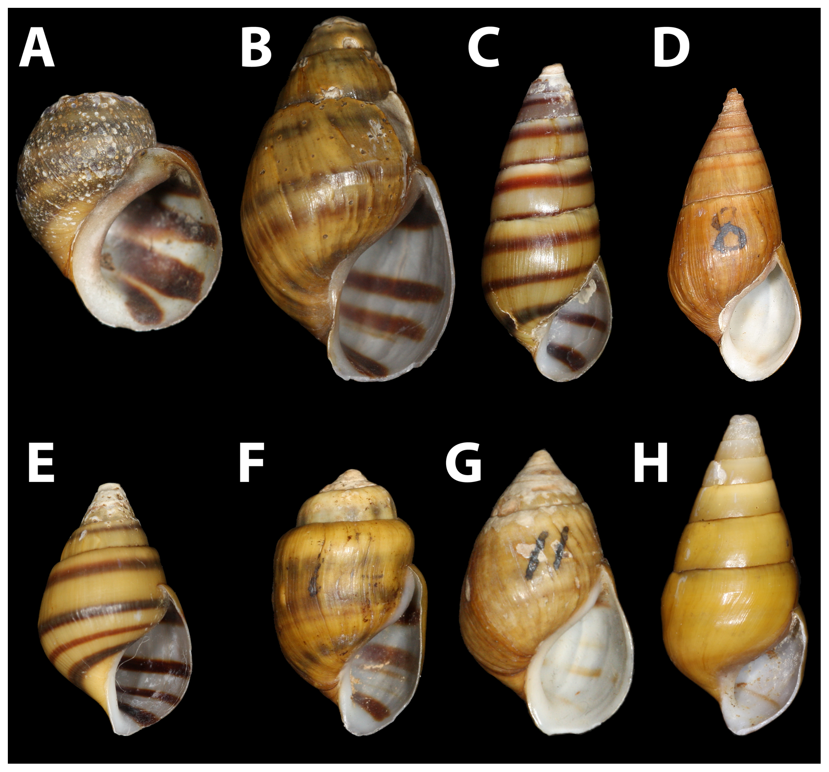 Lectotypes of pleurocerids sympatric with Leptoxis compacta. A) Leptoxis ampla (MCZ 161803). B) Elimia ampla (MCZ 161735). C) Elimia annettae (UMMZ 128908). D) Elimia cahawbensis (USNM 119055). E) Elimia clara (MCZ 072329) F) Elimia showalteri (ANSP 26881) G) Elimia variata (USNM 118756). H) Pleurocera prasinatum (USNM 122206).